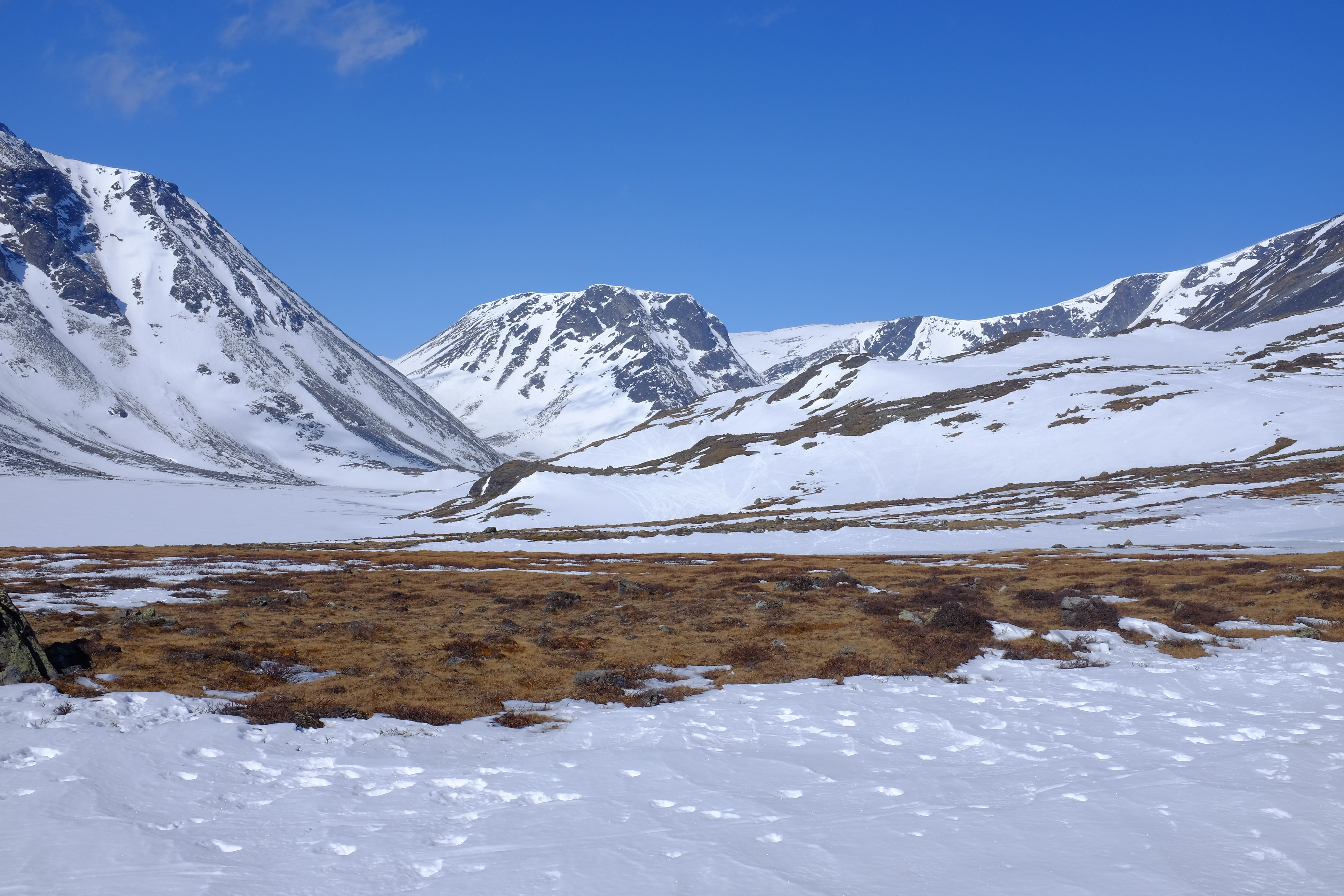 View inward in the Steinbudalen with the Steinbukampen in the middle